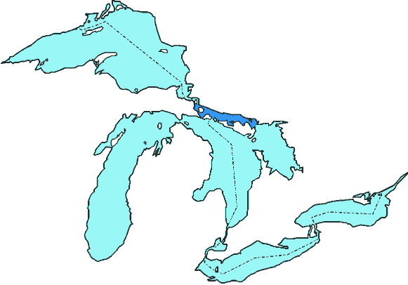 North Channel within Lake Huron